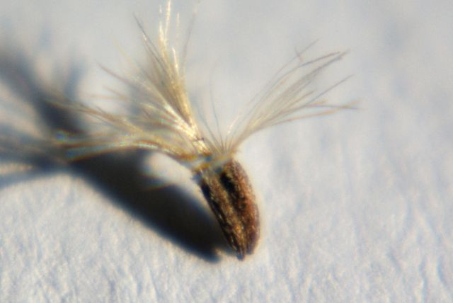 Solidago gigantea